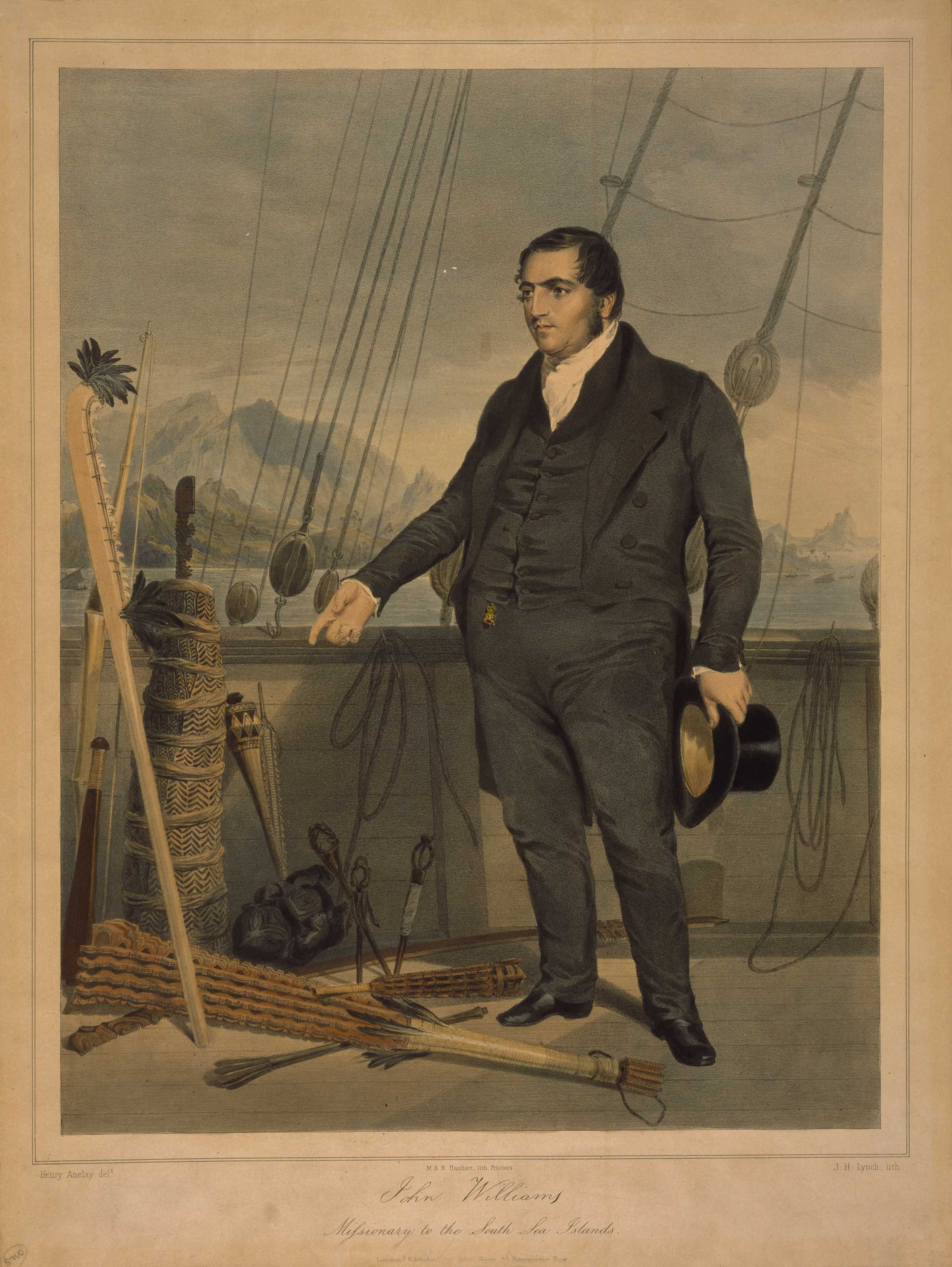 The Reverend John Williams on Board Ship with Native Implements, in the South Sea Islands. Lithograph by J. H. Lynch after Henry Anelay's original. 1 colour art print(s)Lithograph, hand-coloured, 407 x 319 mm. A standing full length portrait of Williams (later killed in Vanuatu) on board ship with a Pacific island background and Vanuatuan artifacts alongside him. Reference Number: C-020-004.